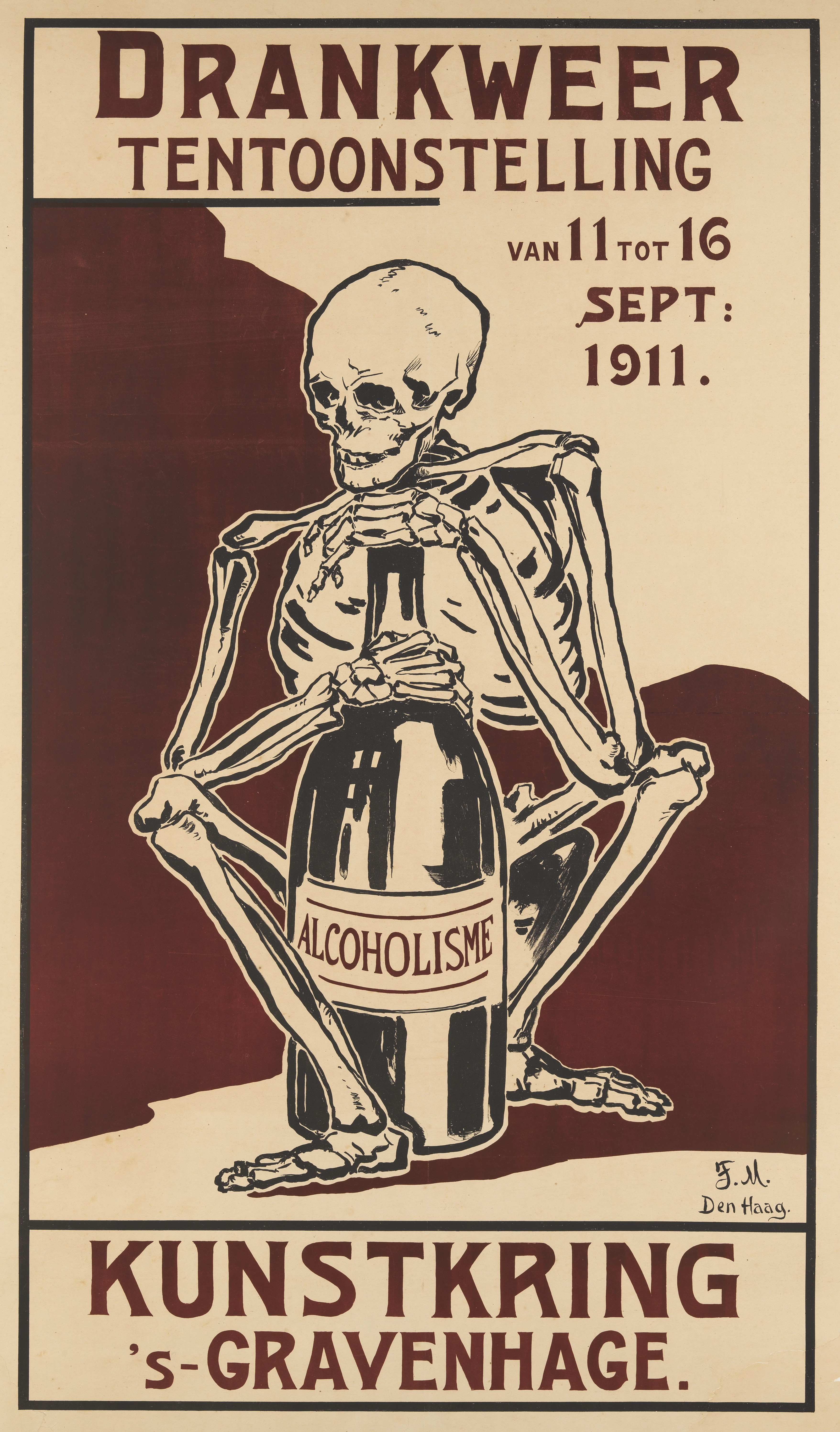 A skeleton clutching a bottle labelled "Alcoholisme"; advertising an exhibition on alcohol abuse in the Hague, 1911. Lithograph, 1911, after F.M. Imprint [The Hague] : [s.n.], [1911] Drankweer tentoonstelling van 11 tot 16 Sept. 1911 Kunstkring 's-Gravenhage. F.M. Den Haag Possibly an exhibition to coincide with the 13e Internationaal Congres tegen het Alcoholisme, which took place in the Hague in September 1911 Author, etc. F. M., designer, fl. ca. 1911. International Congress Against Alcoholism (13th : 1911 : The Hague, The Netherlands) Human skeleton. Iconographic Collections Keywords: F. M.; International Congress Against Alcoholism